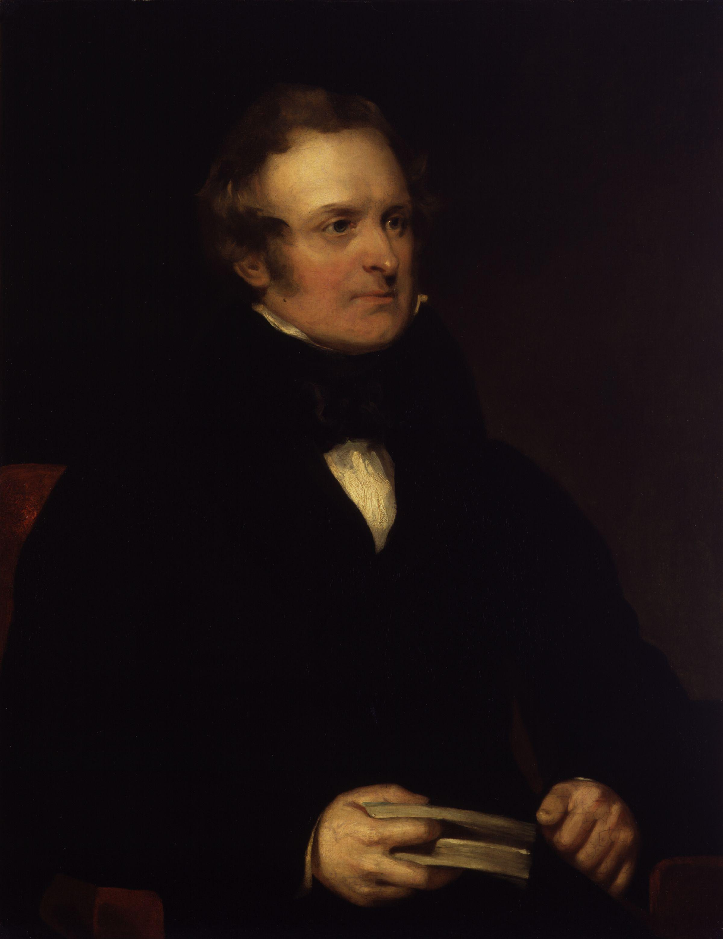 John Wilson, by Sir John Watson-Gordon (died 1864), given to the National Portrait Gallery, London in 1865. All images in this batch have been confirmed as author died before 1939 according to the official death date listed by the NPG.